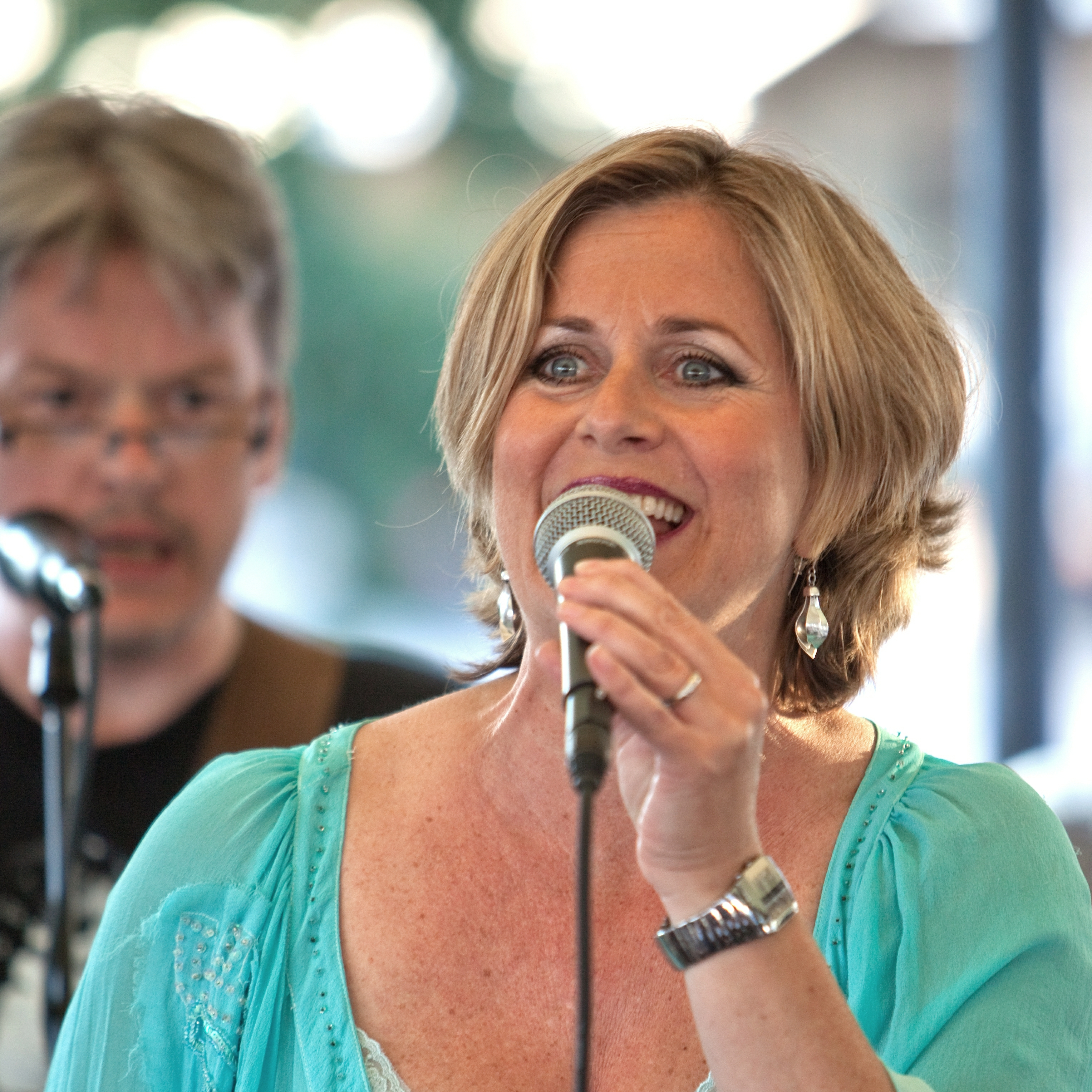 Gunilla Backman and The Soulbrothers at Winbergs Vaxholm 2012